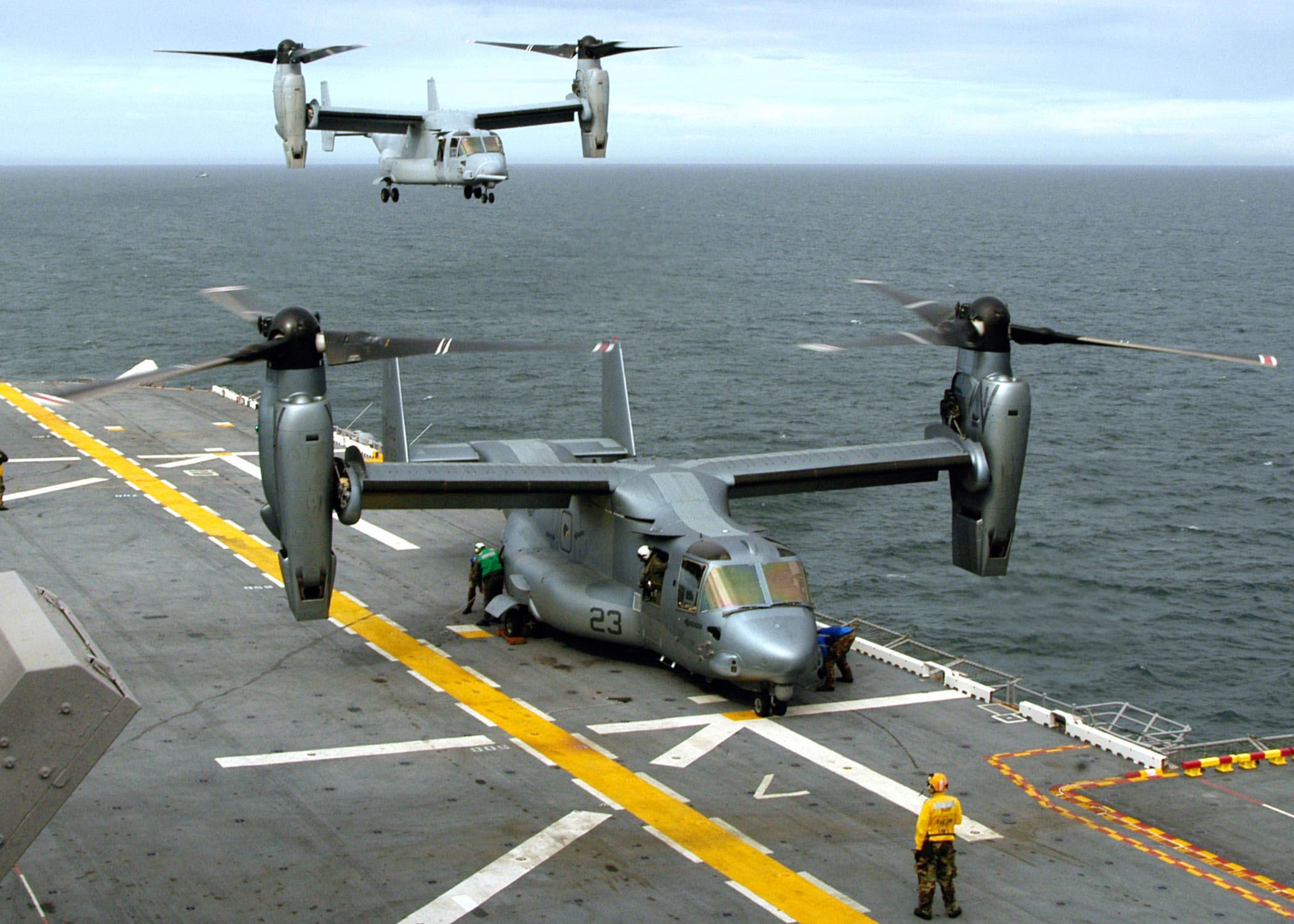 Atlantic Ocean (November 15, 2005) - A U.S. Marine Corps MV-22B Osprey, assigned to Marine Tiltrotor Operational Test and Evaluation Squadron Two Two (VMX-22), prepares to refuel while another Osprey approaches the flight deck of the amphibious assault ship USS Wasp (LHD 1) for landing. The MV-22 is an advanced technology, vertical/short takeoff and landing (VSTOL) multipurpose tactical aircraft, and is scheduled to replace the aging CH-46E Sea Knight and CH-53D Sea Stallion helicopters currently in service. Wasp is currently conducting deck-landing qualifications in the Atlantic Ocean.